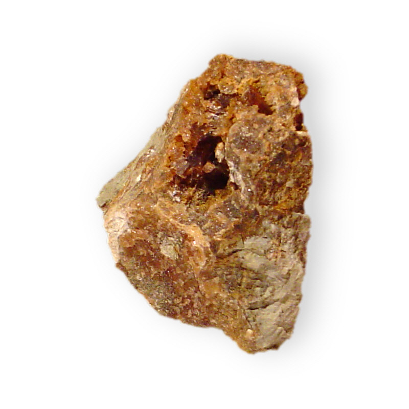 These mineral images are free to use how you wish.